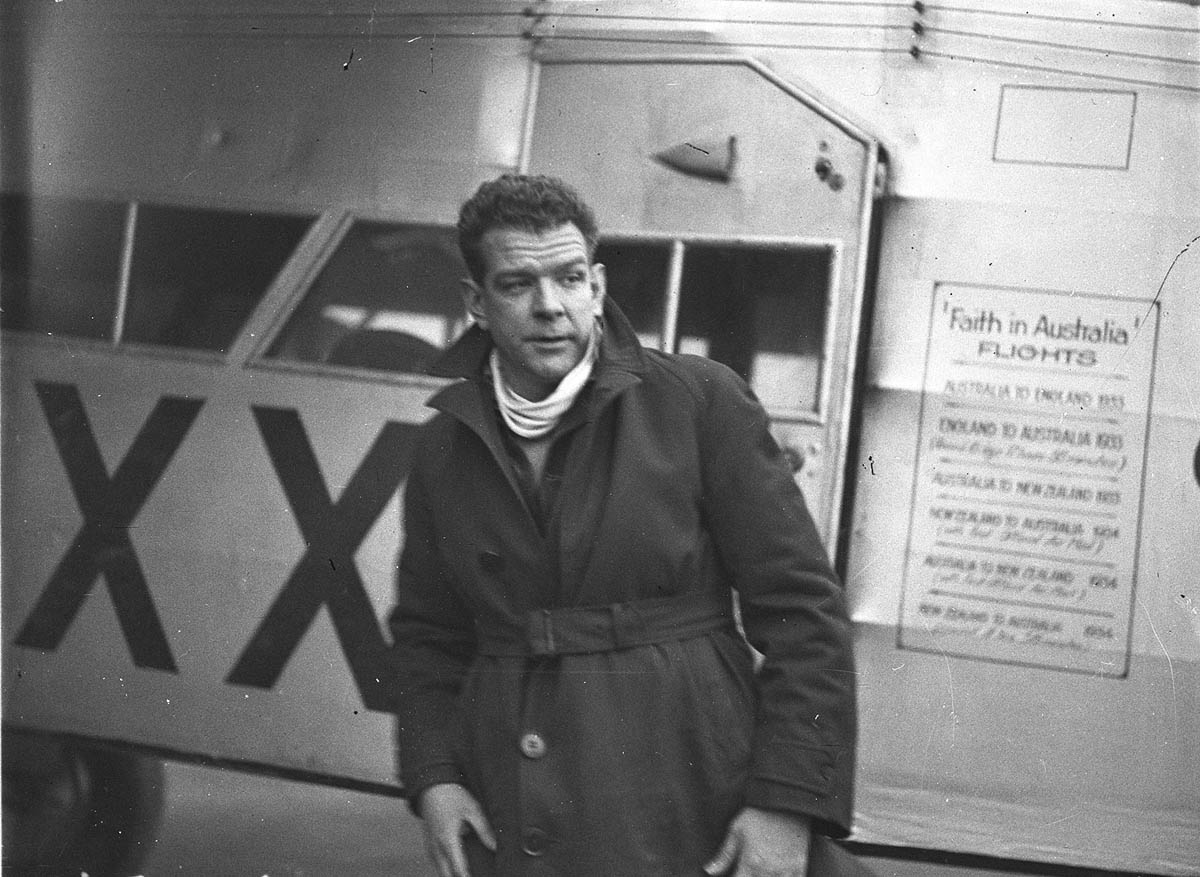 Charles Ulm in 1934, in front of his Avro X VH-UXX "Faith in Australia". The text on the side of the aircraft lists all the long-distance flights it has made.